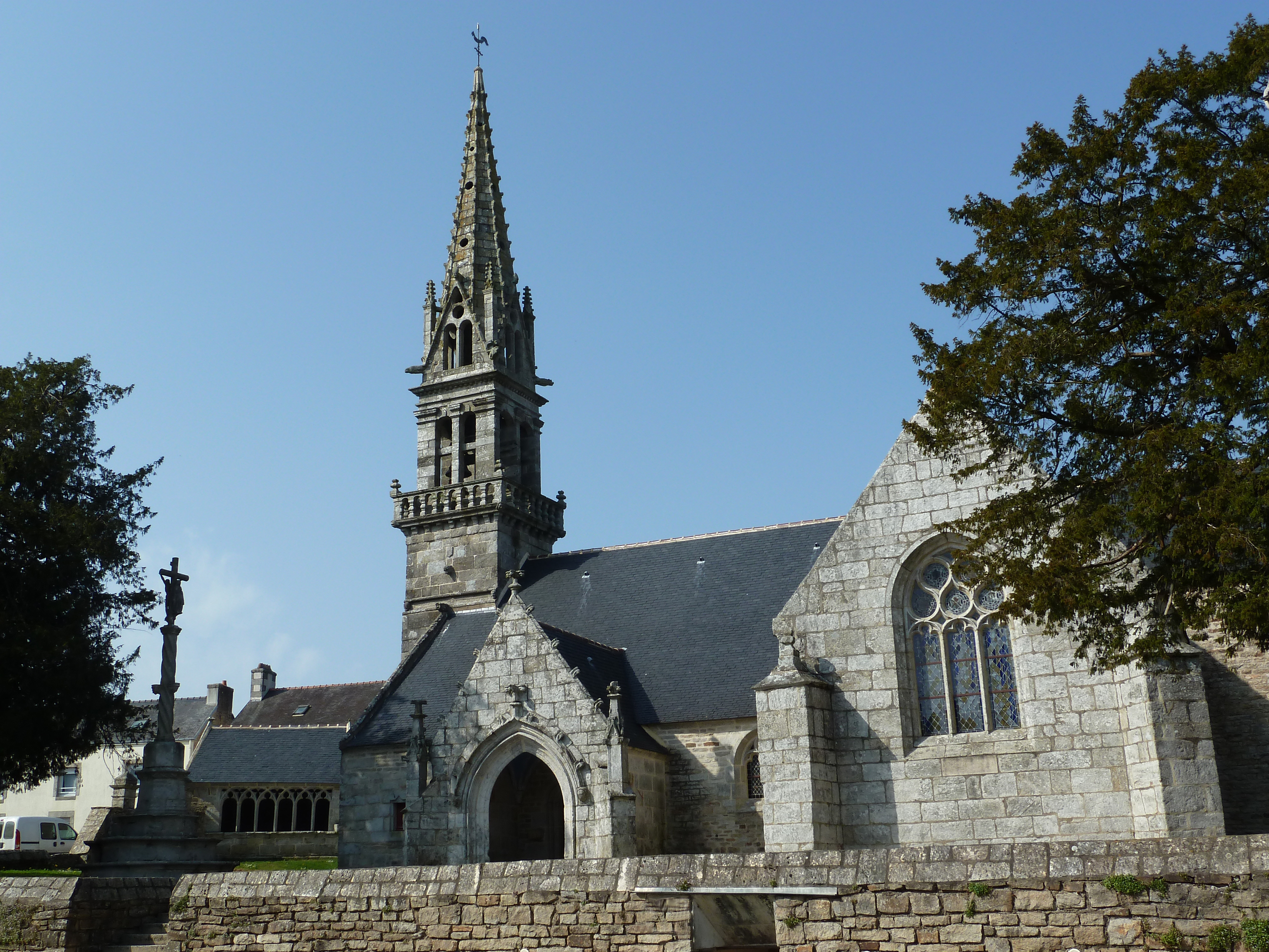 St. Mary's church in Saint-Yvi, Finistère, Brittany, France